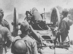 Japanese Type 38 15 cm howitzer